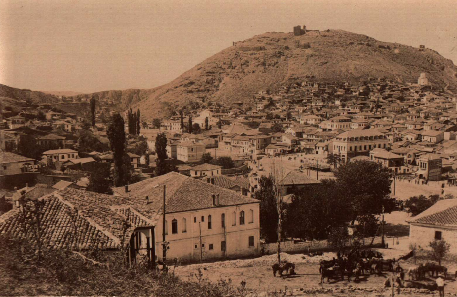 Market in Macedonia